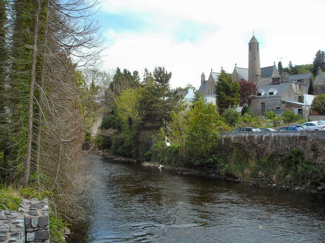 The River Eske Rising in the Blue Stack mountains to the north, the Eske river flows through Donegal town into Donegal Bay. The picture was taken from the bridge in Water Street.